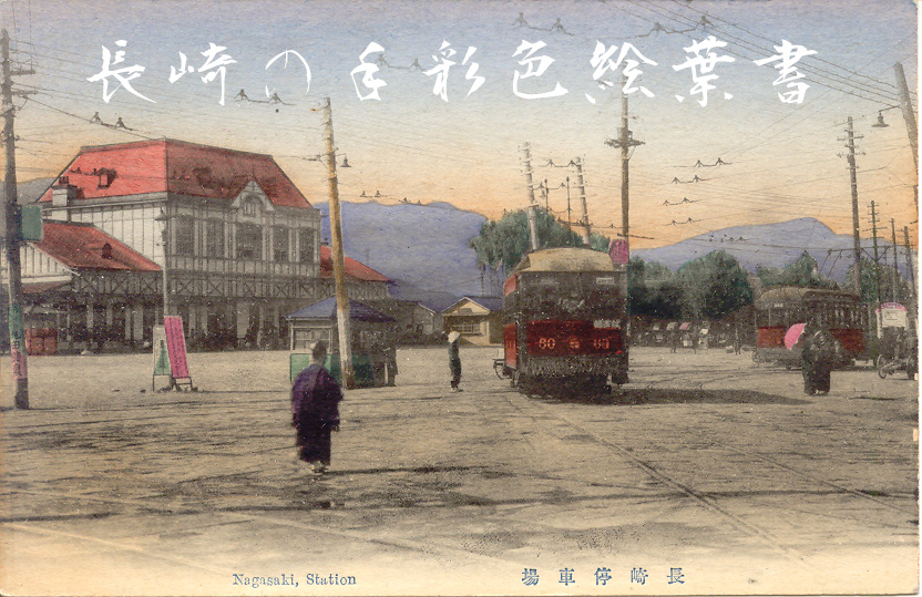 Japanese hand tinted postcard showing Nagasaki Station